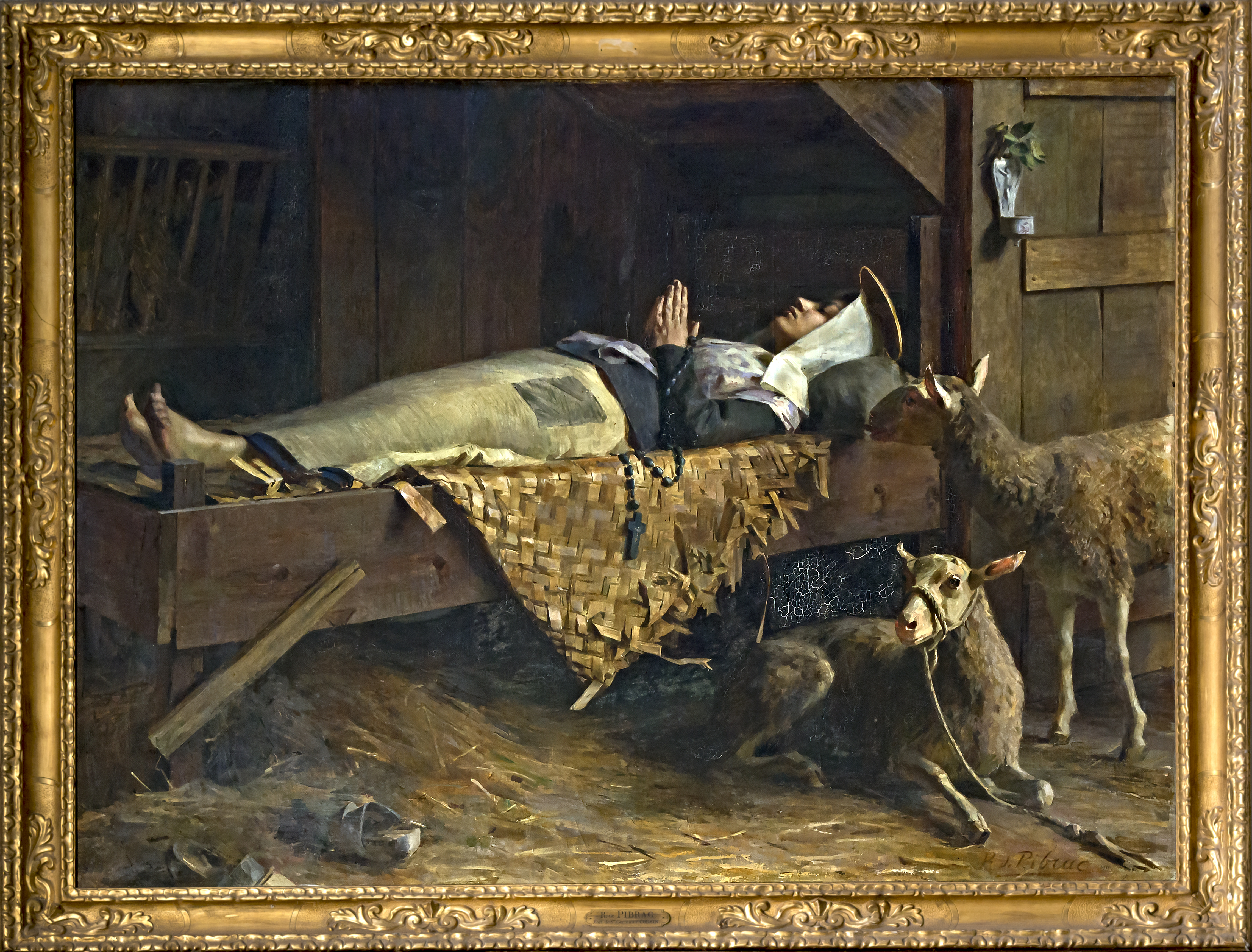 Église Sainte-Marie-Madeleine de Pibrac - "The death of Saint-Germaine" by Raoul Du faur de Pibrac, oil on canvas, 1910.